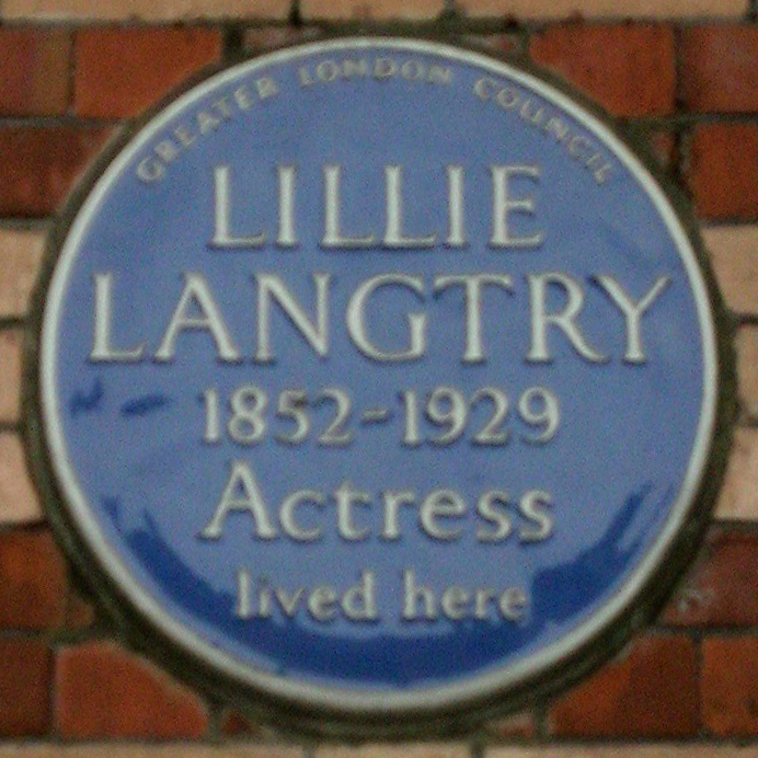 Blue plaque to Lillie Langtry on the Cadogan Hotel, 22 Pont Street, London, England. Photographed by me 29 September 2006. Oosoom